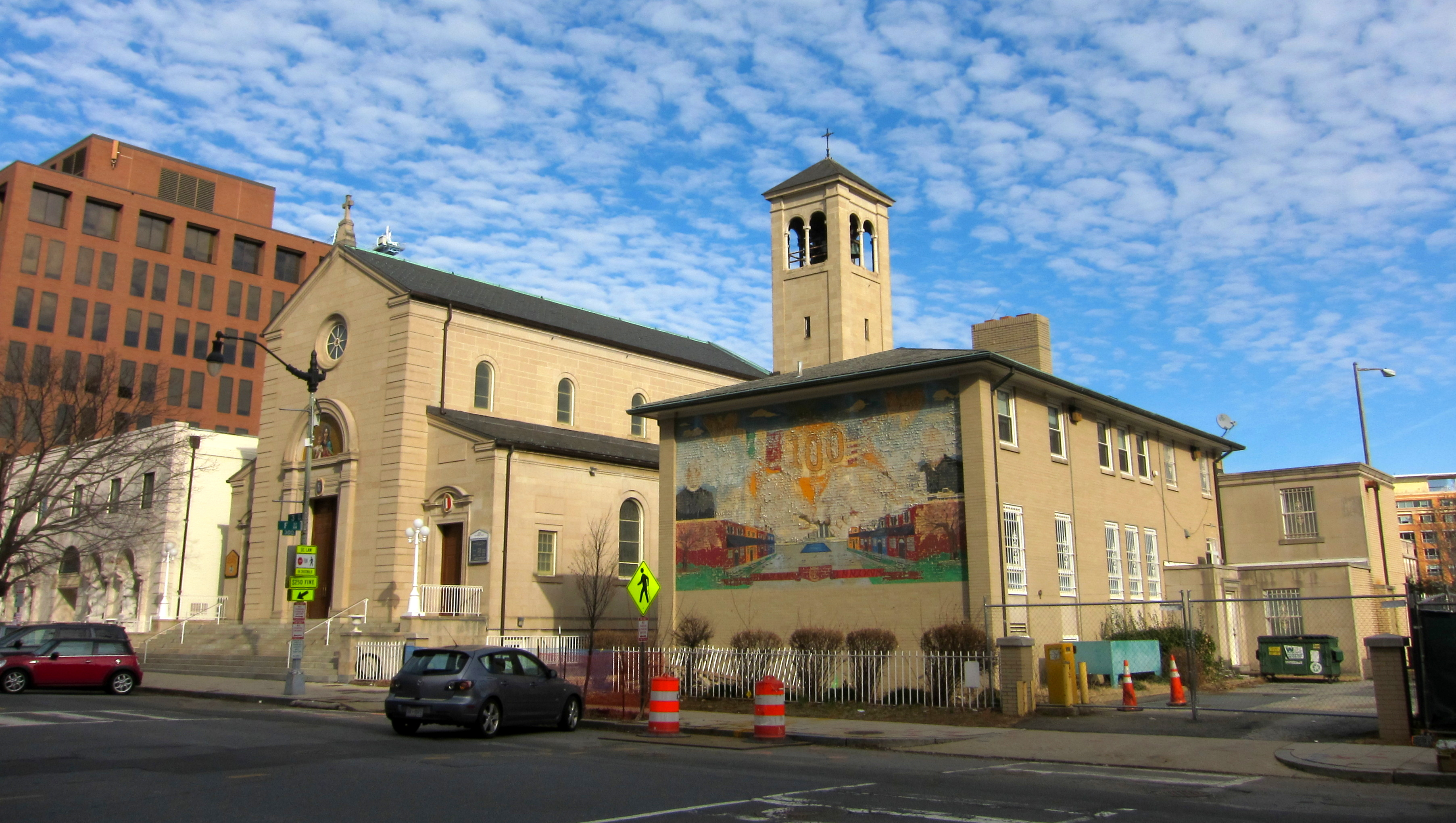 Holy Rosary Catholic Church in Washington, D.C.